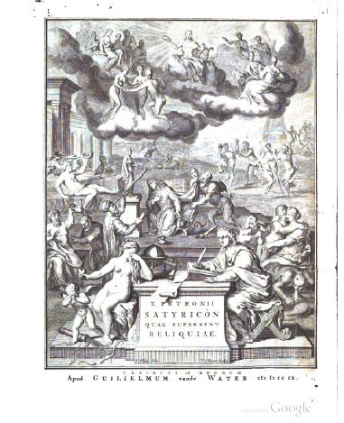 Picture in the 1709 edition (cf. Google Books)